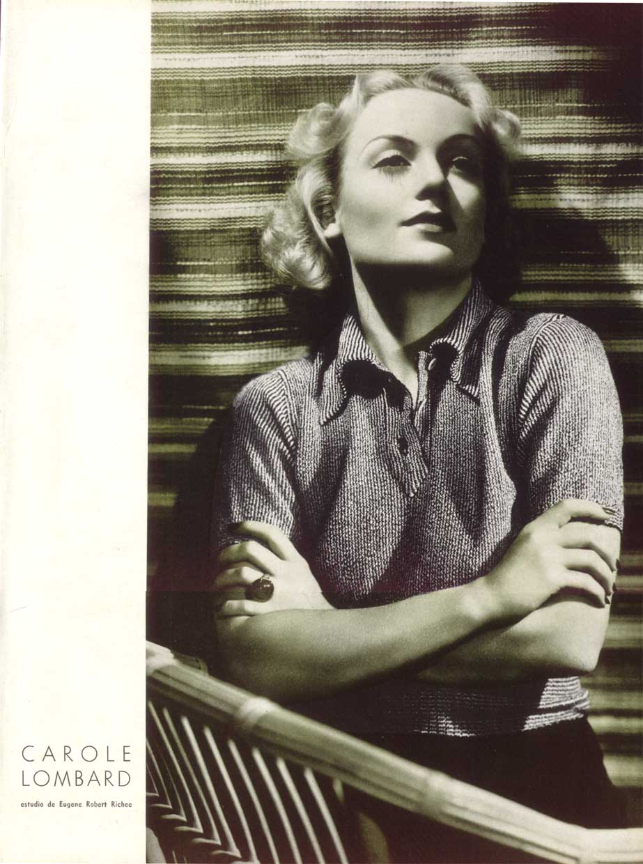 Promotional photo of Carole Lombard in Argentinean Magazine. (Printed in USA)